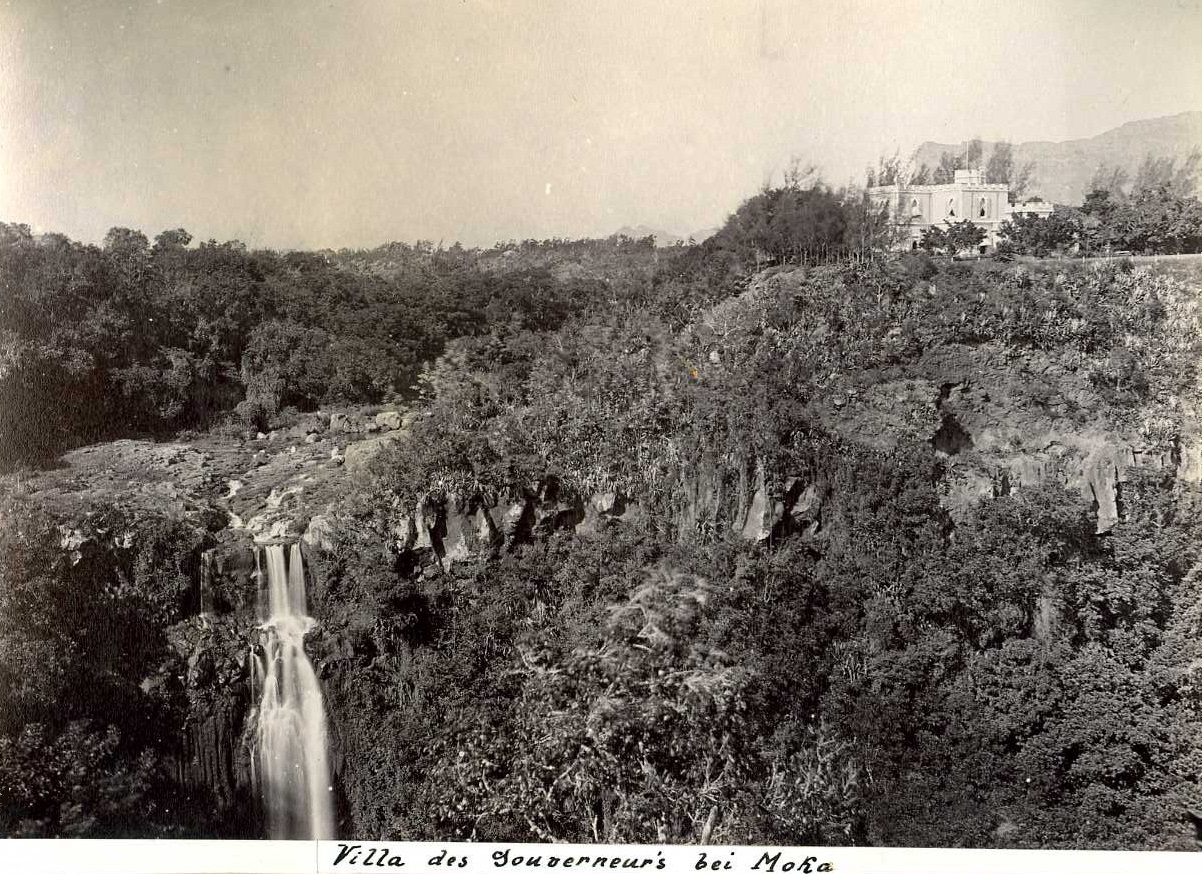 Villa of the Turkish governor of Mocha. Albumen photograph from the late 19th century.